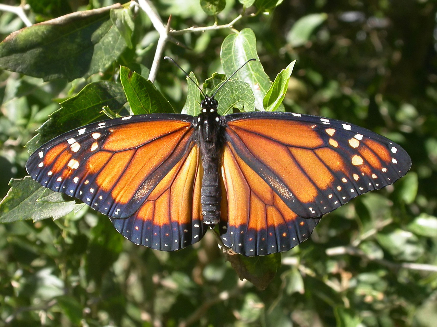 Danaus erippus (= Danaus plexippus erippus, Southern Monarch), female, at La Plata (Buenos Aires province, Argentina). Home reared from local stock (eggs laid by wild butterflies).